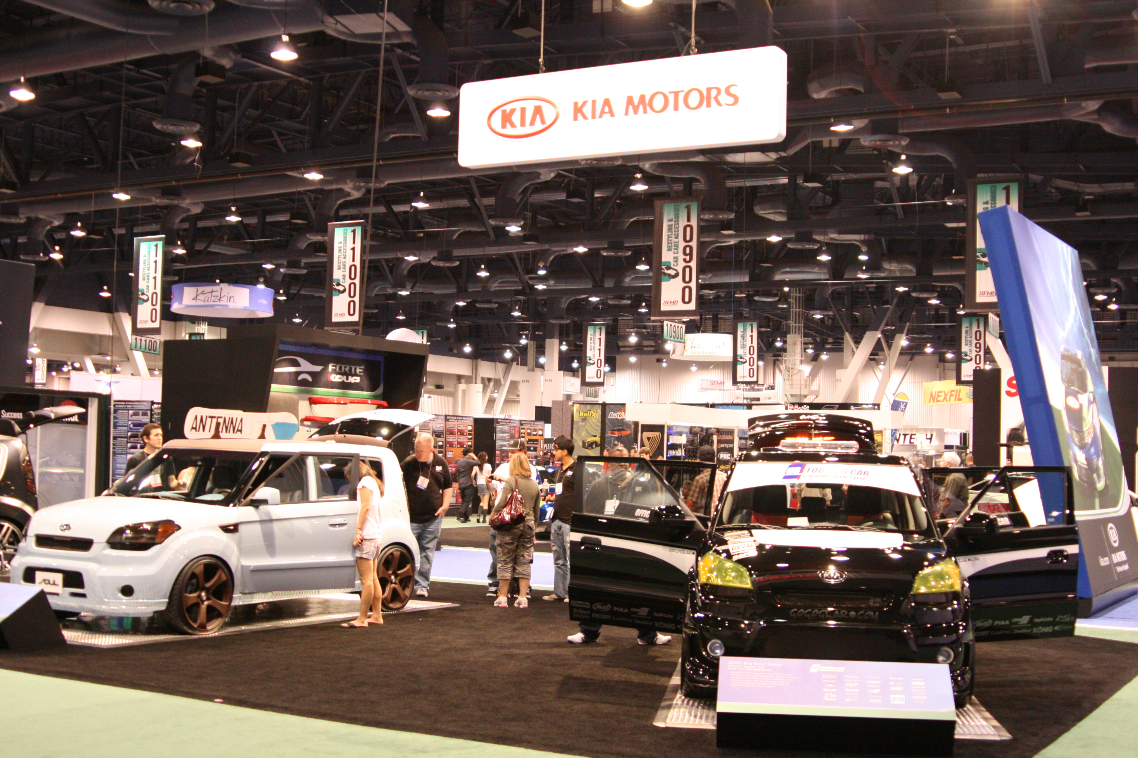 Kia Motors exhibit at the 2009 SEMA auto show in the Las Vegas Convention Center.